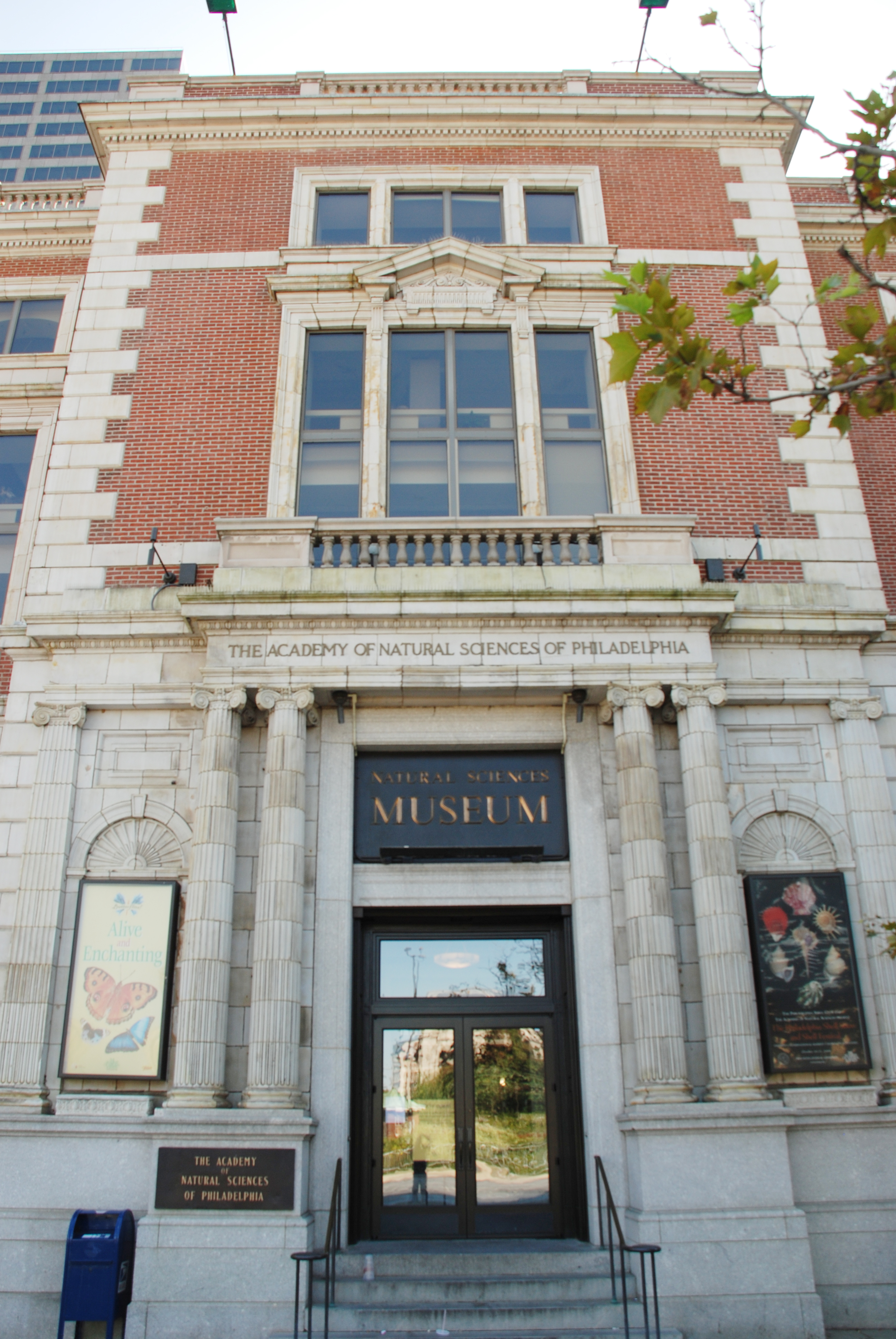 Academy of Natural Sciences, 19th & Race